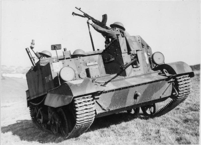 The British Army in the United Kingdom 1939-45 Universal carrier Mk I of the Duke of Cornwall's Light Infantry on the Sussex Downs, 18 October 1940. The crew demonstrate the use of the 2-inch mortar and Bren gun on an anti-aircraft mounting.